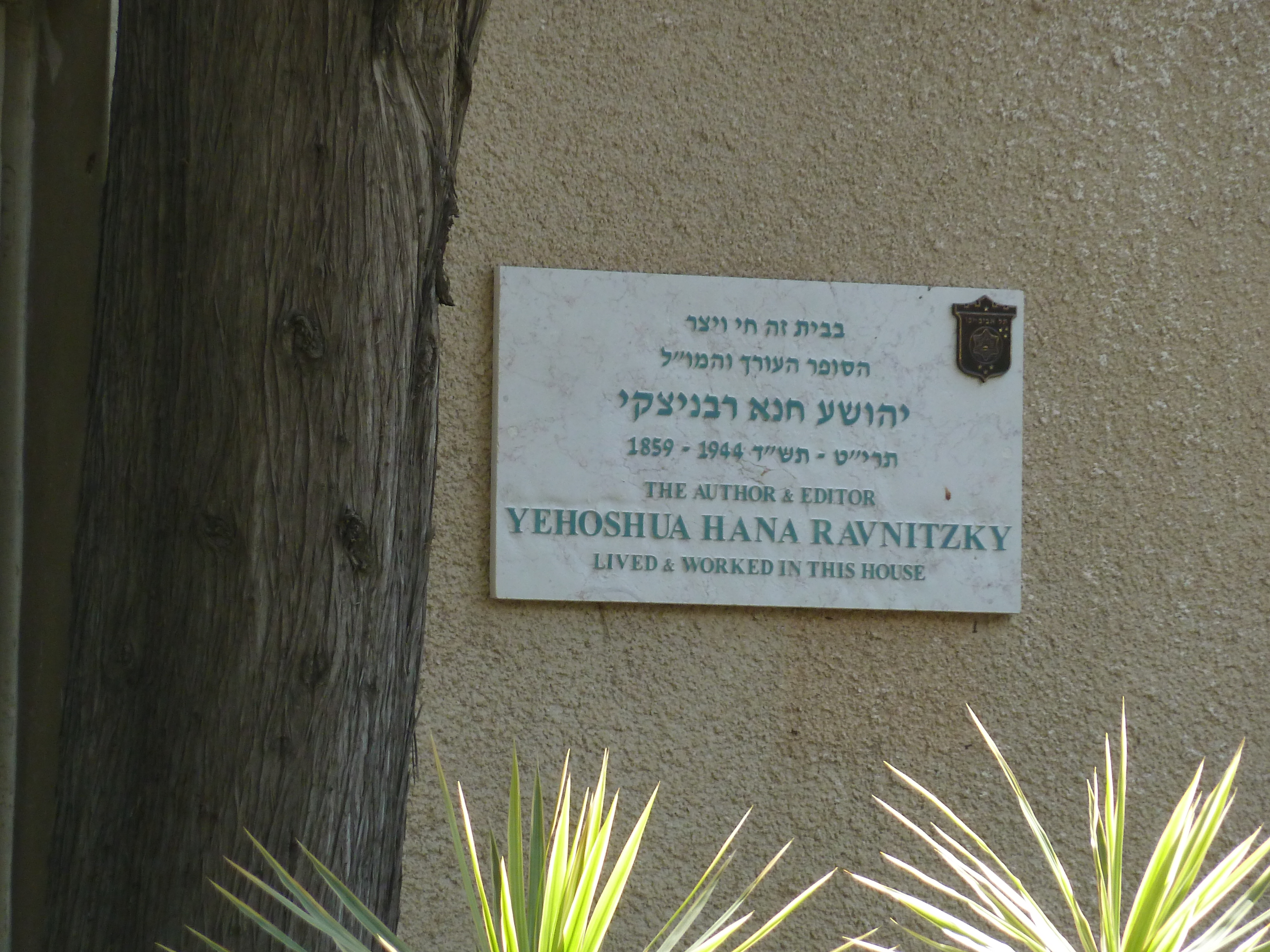 Beit Yehoshua Ravnitzky, Ehad Haam street, Tel Aviv